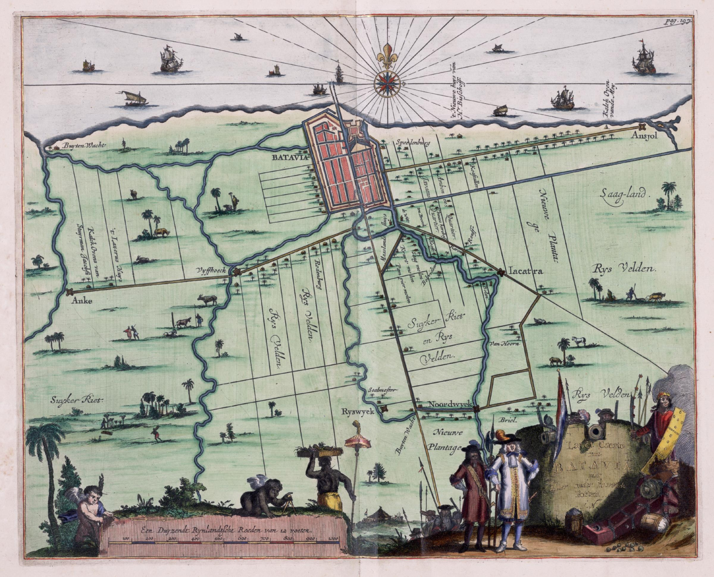 Map of Batavia and environs taken from the Atlas van der Hagen, Koninklijk Bibliotheek, The Hague, Part 4. Black & whiteversion of the same map: Koninklijke Bibliotheek, inv. nr. 388 A 9 deel II, na p. 196. Cf. Westfries Museum, inv. nr. 15252, Tropenmuseum / KIT, inv. nr. 5681-3 and Koninklijke Bibliotheek, inv. nr. 2102A 7, p. 118.